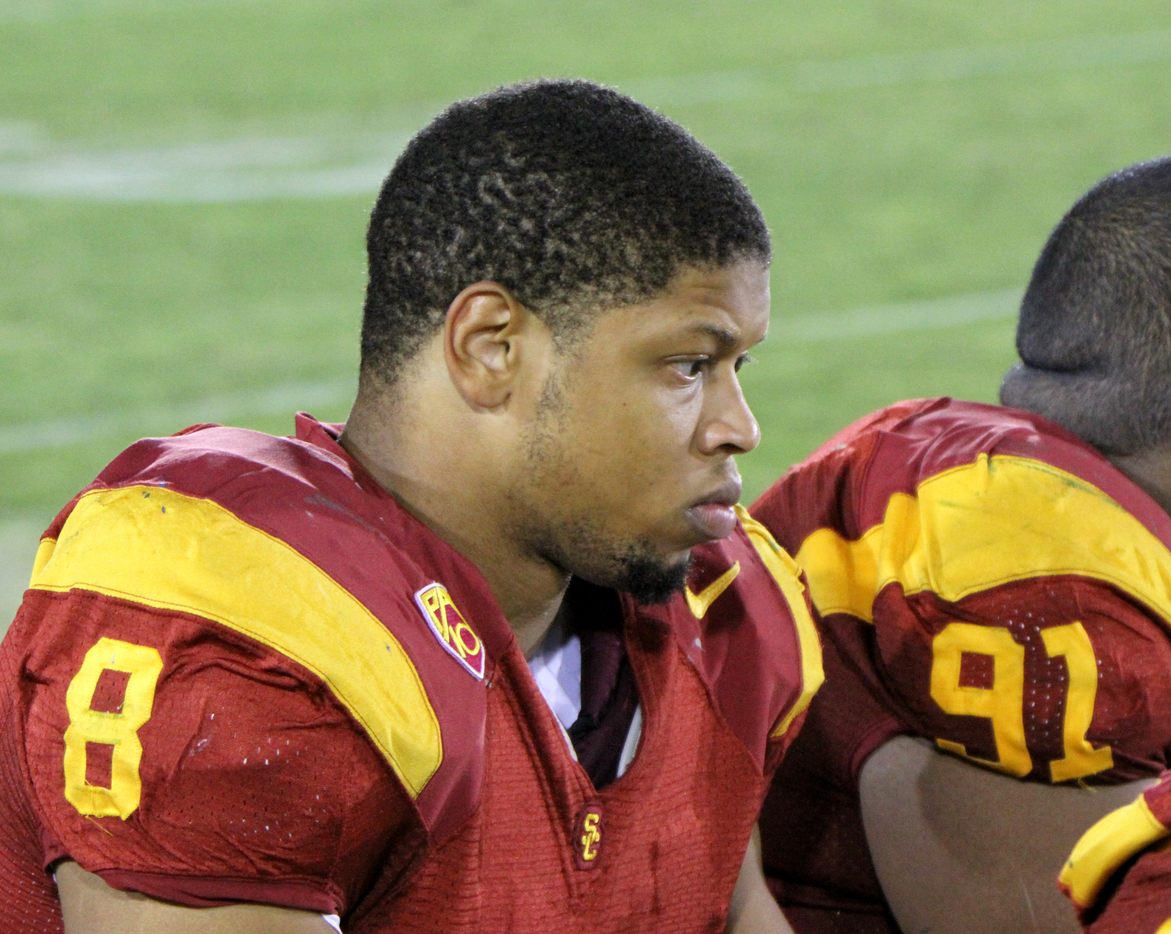 The USC Trojans fall 53-32 to the Oregon Ducks at the Los Angeles Memorial Coliseum Saturday October 30, 2010. (Shotgun Spratling/Neon Tommy)